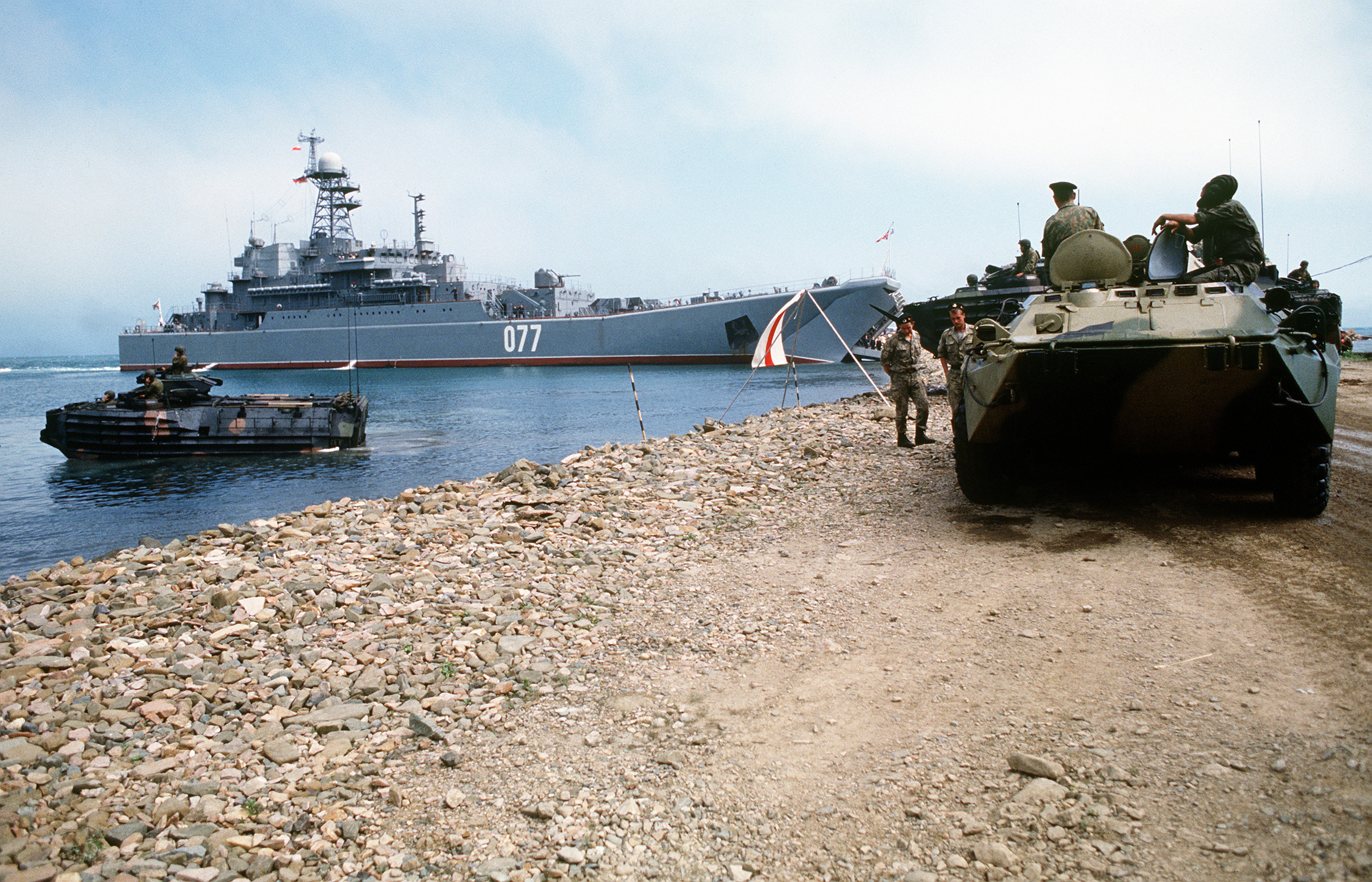 An AAV-7A1 amphibious assault vehicle of the 3rd USMC Division is in the water with the Russian Navy Ropucha II class tank landing ship BDK-007 in the background. A second AAV is about to enter the water behind the Russian BTR-80 APC. U.S. & Russian AAV battalions are involved in cross training operations near Vladivostok as part of the combined American-Russian disaster relief exercise.